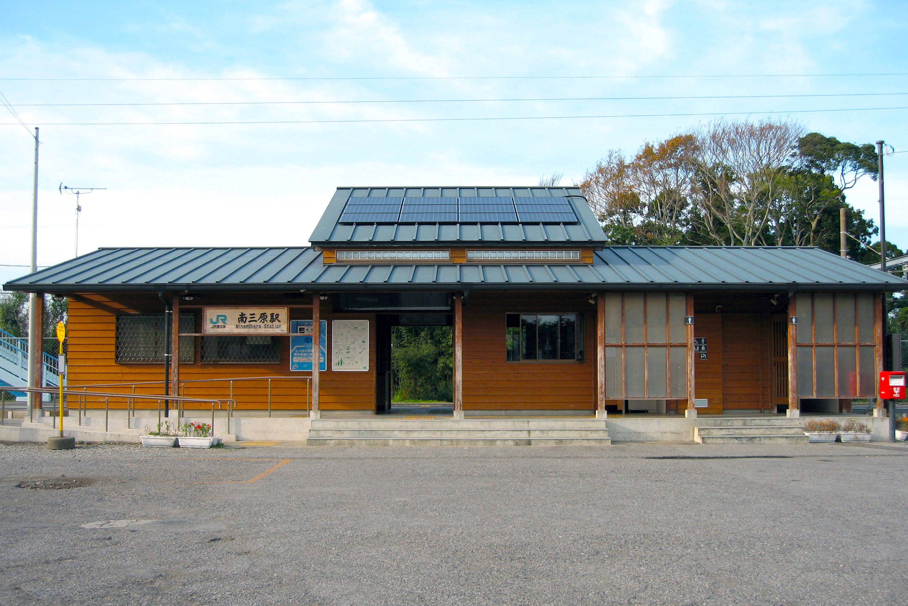 Minamihara Station, Uchibo Line, Chiba, Japan